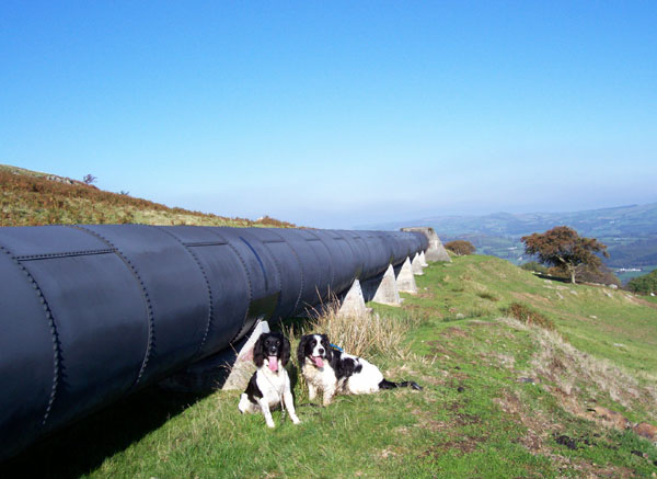 The High-head Pipeline, near to Dolgarrog, Conwy County, Wales. Water is taken from Llyn Cowlyd to the Hydro-electric power station at Dolgarrog SH7667 in this pipeline. It is called the high-head supply as it is sourced at a higher elevation (350m) than the original supply through Coedty Reservoir at 270m.